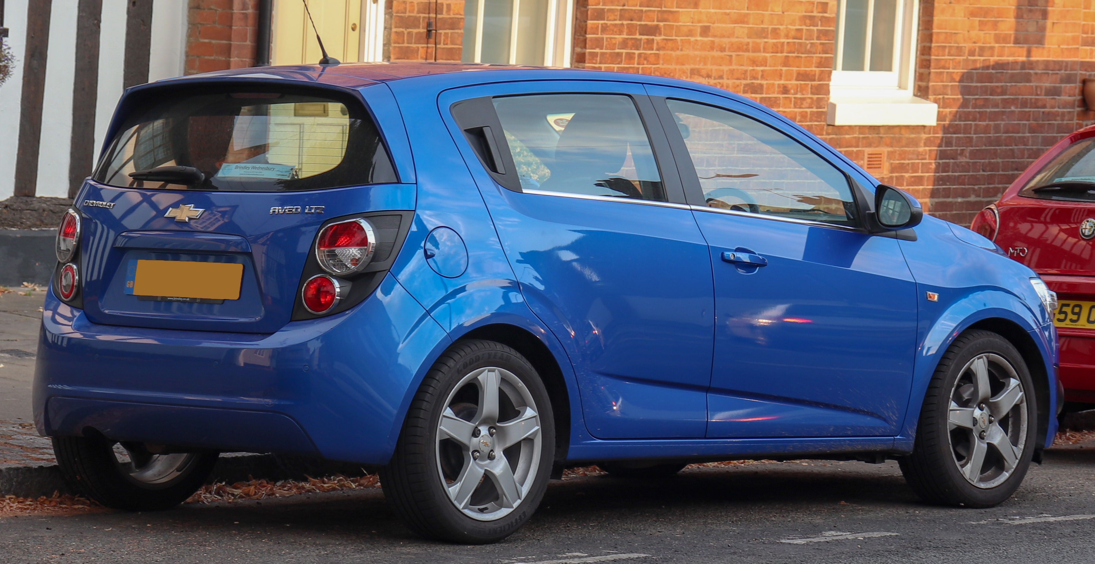 2012 Chevrolet Aveo LTZ 1.4 Rear Taken in Warwick